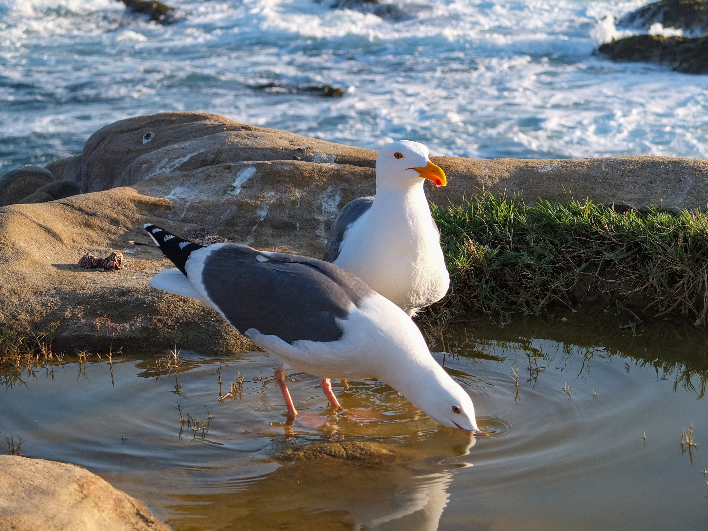 A Larus occidentalis, or Western gull, at Point Lobos State Reserve near Monterrey, California, United States.